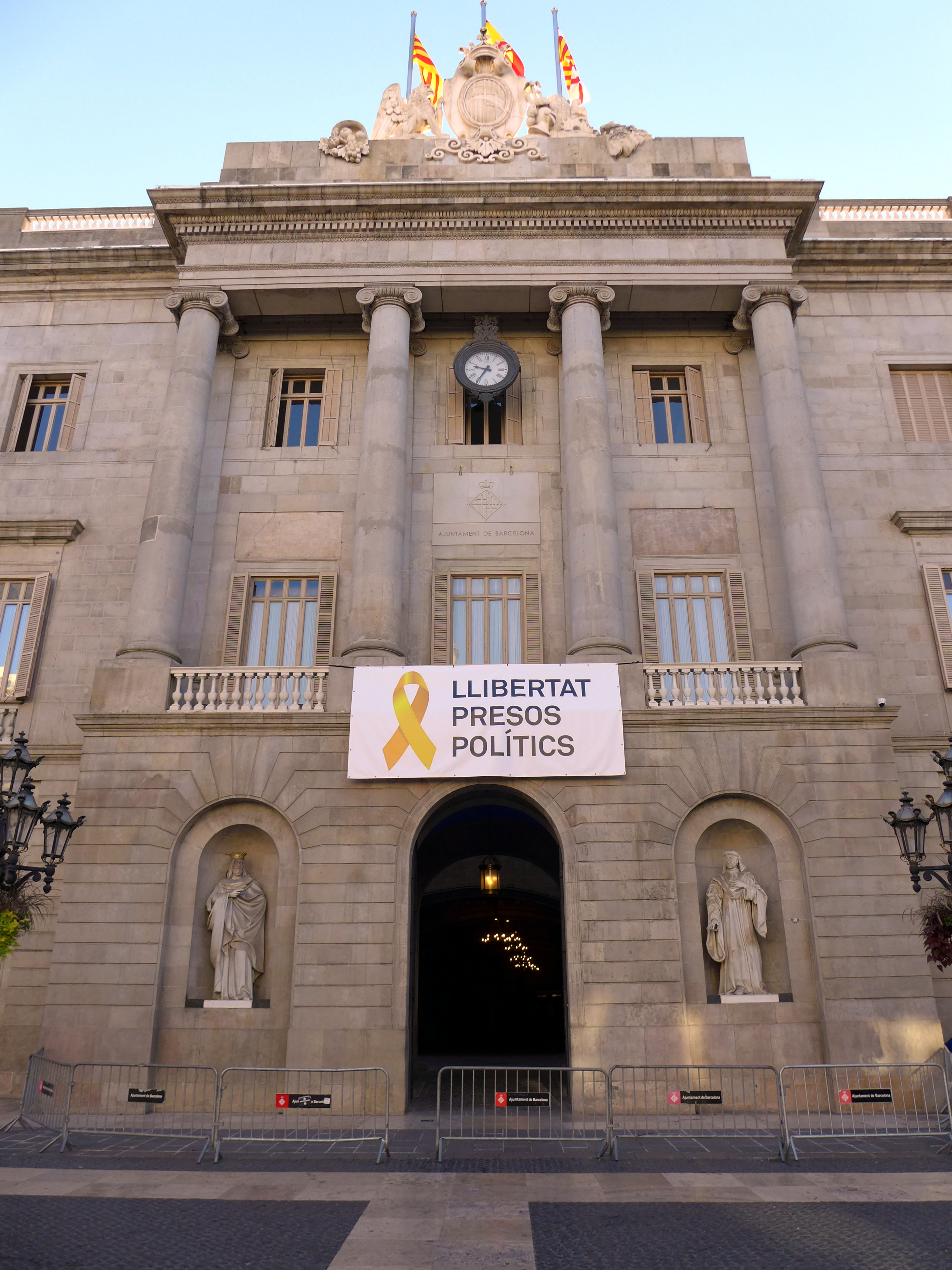 Barcelona city council building in Plaza Sant Jaume.